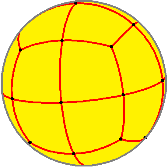 Spherical polyhedron deltoidal icositetrahedron